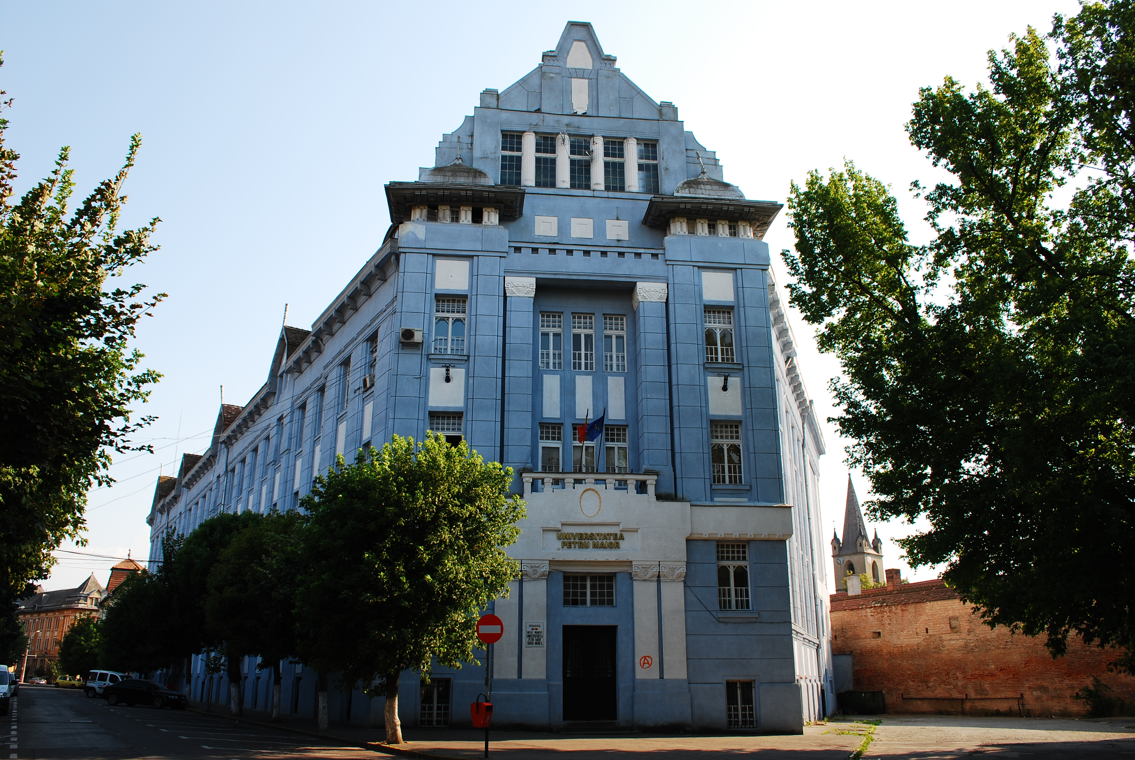 Petru Maior university building in Târgu Mureş, RomaniaRomână: Clădirea universităţii Petru Maior din Târgu Mureş, România